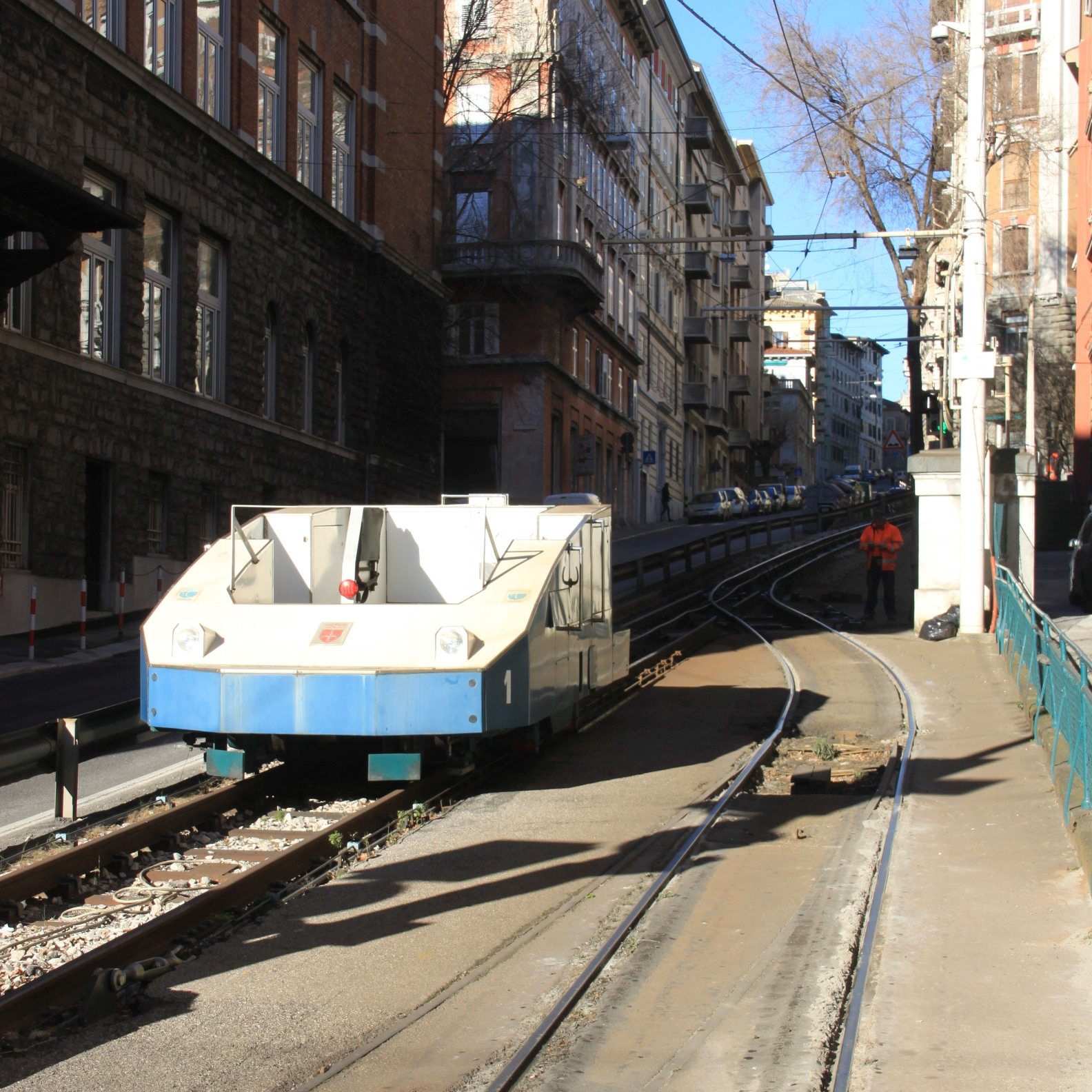 Trieste-Opicina tramway; funicular tractor no. 1 and switch at the lower end of the funicular section near Piazza Alberto e Kathleen Casali (formerly Piazza Scorcola) at the lower end of the via Commerciale